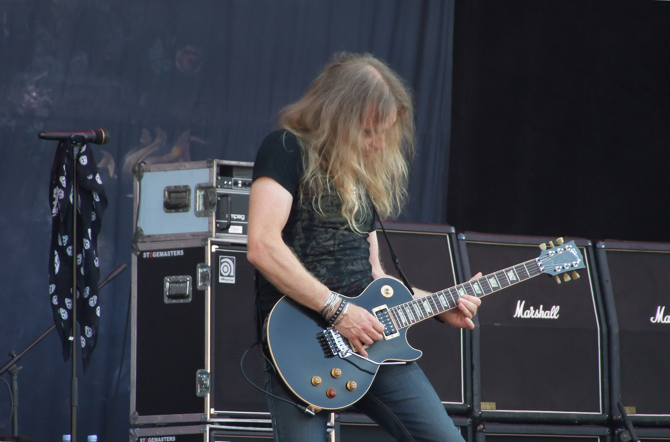 Doug Scarratt with Saxon at Sofia Rocks Fest, Bulgaria.